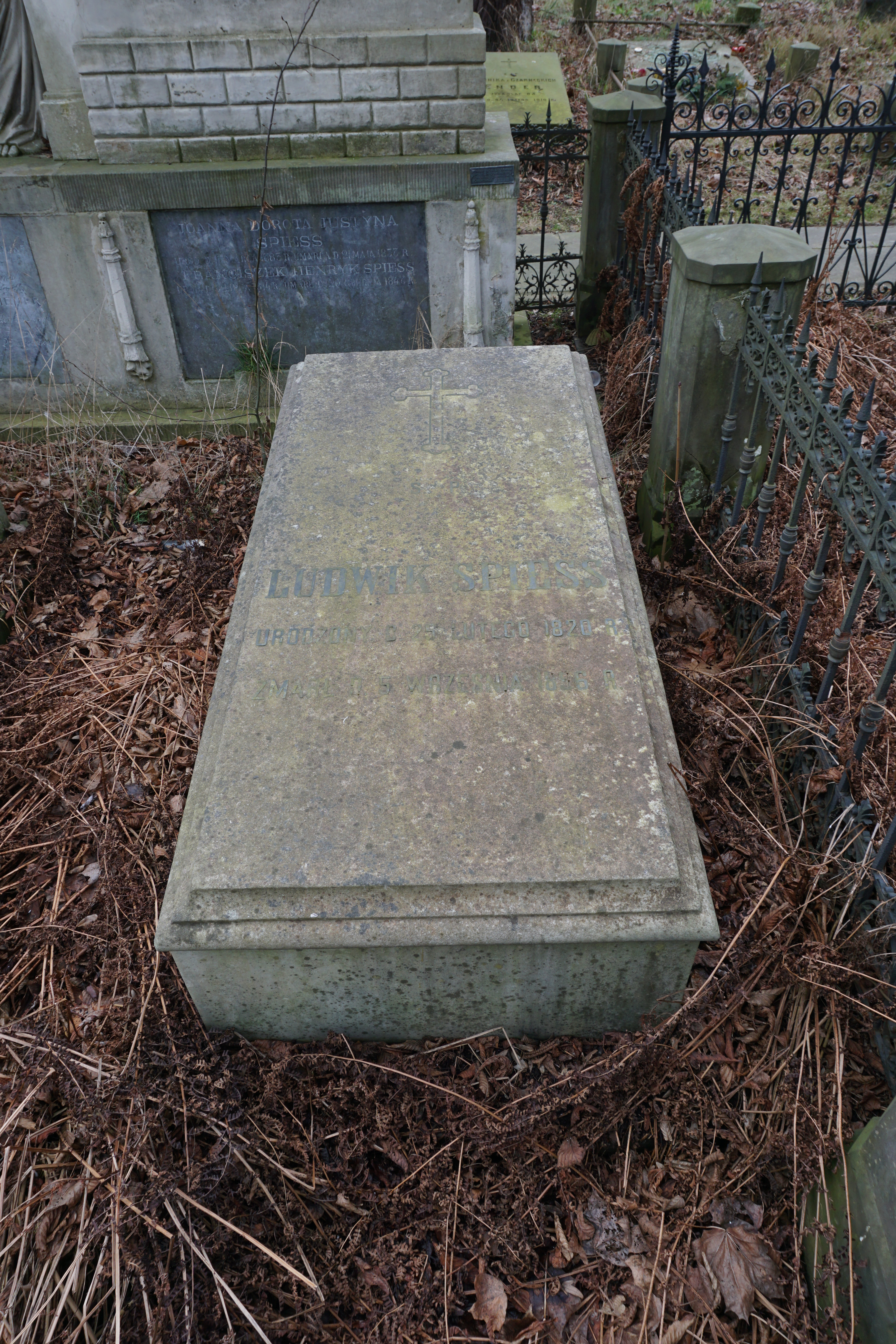 The grave of Ludwik Spiess at the Evangelical-Augsburg Cemetery in Warsaw (avenue 5, grave 21)